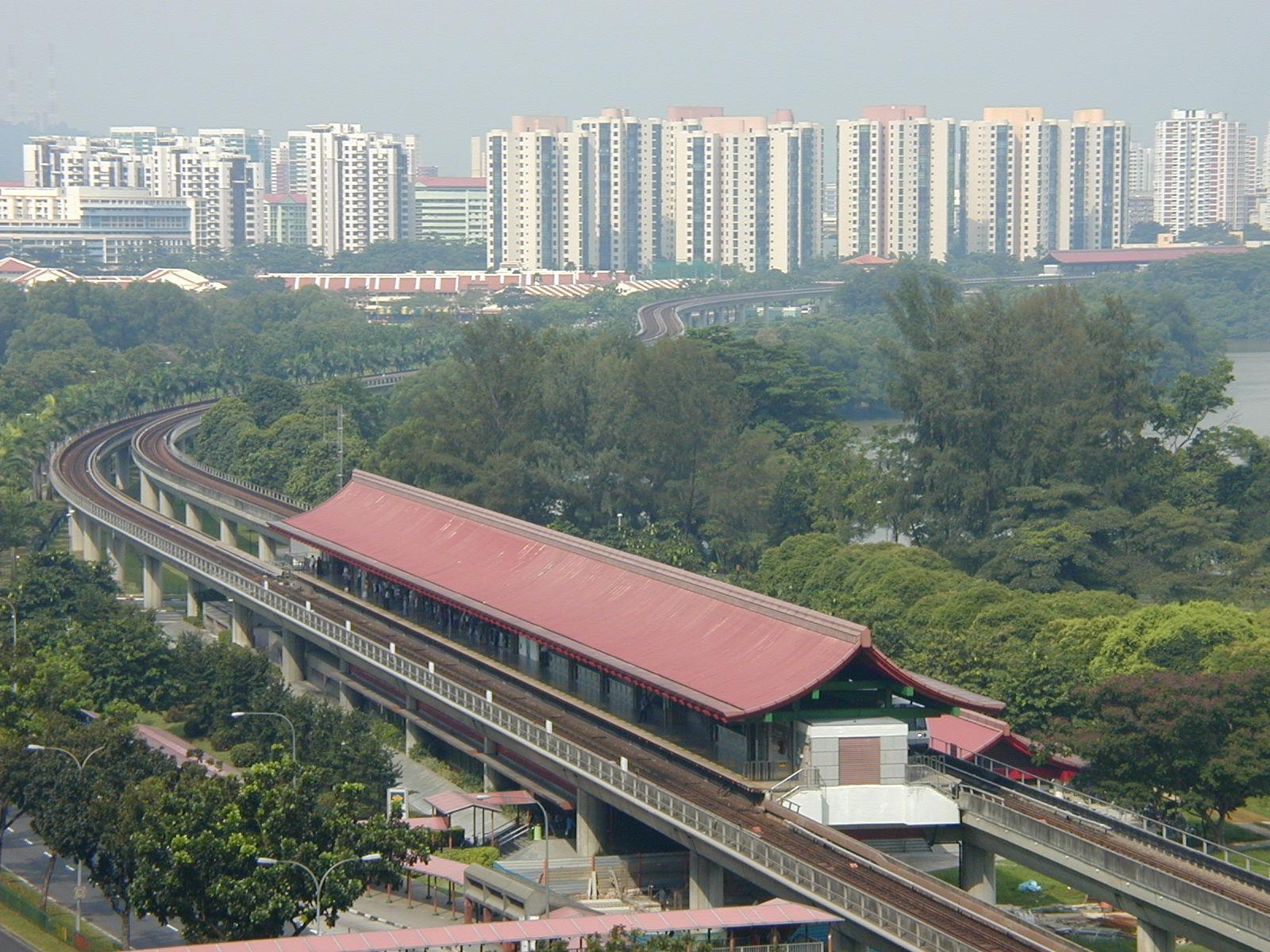 Lakeside MRT Station and HDB housing blocks, Singapore.